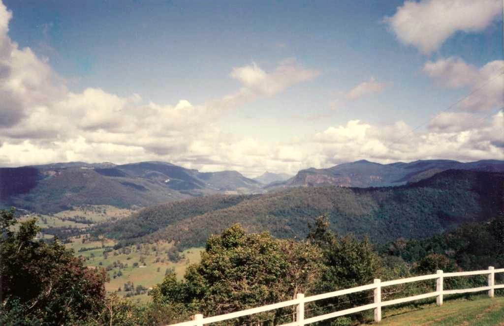 View south showing Springbook Plateau, Numinbah Valley, Mount Warning and Lamington Plateau from Rosin's Lookout, Beechmont. Taken April 1994.